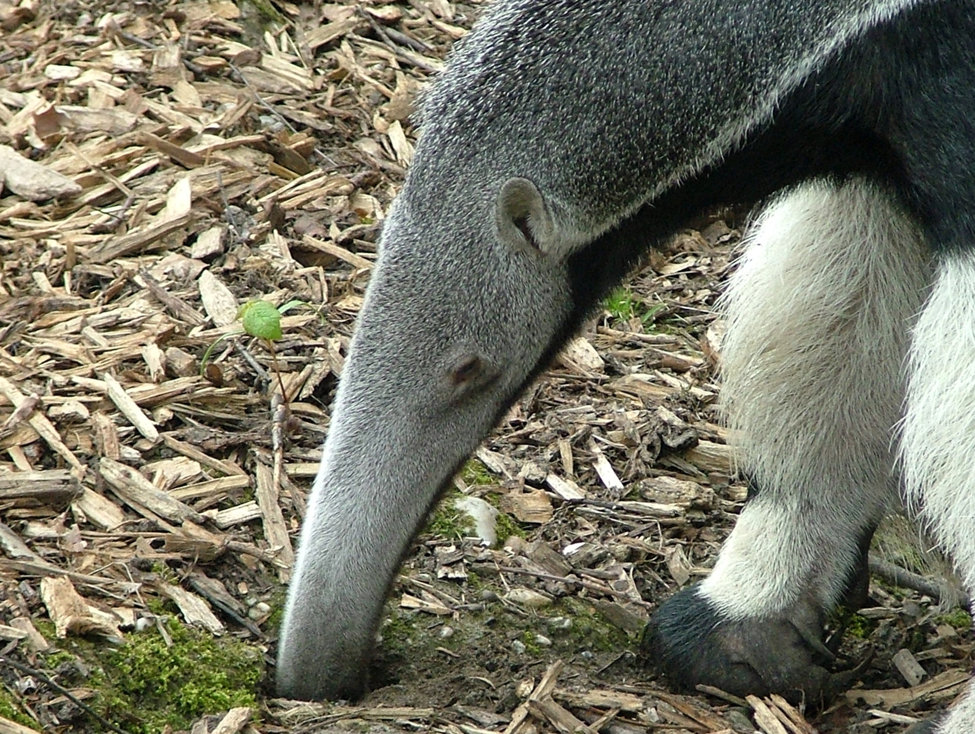 Giant Anteater seaching for food